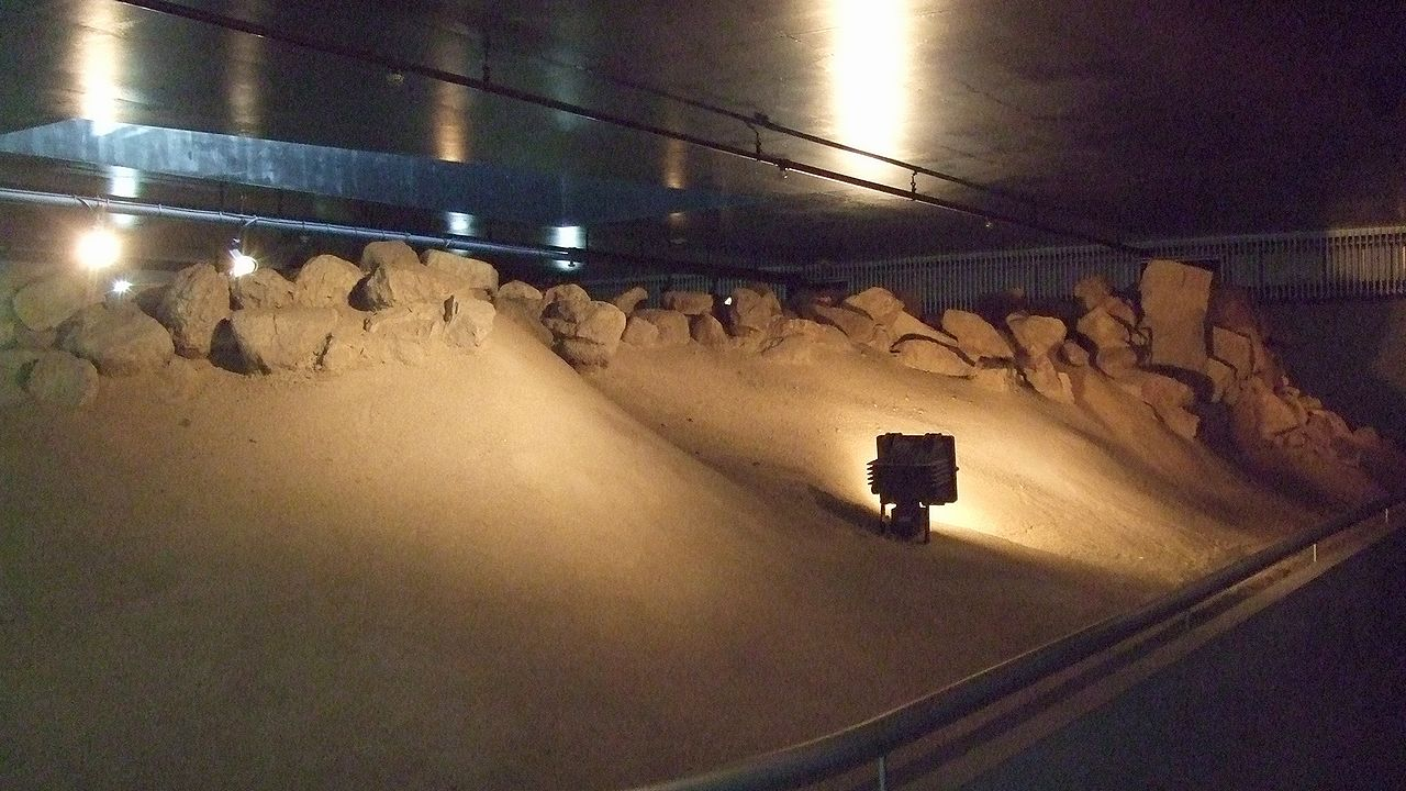 The stone base infered Genko Borui, at Hakata Elementary School, Hakata Ward, Fukuoka City, Fukuoka, Japan.